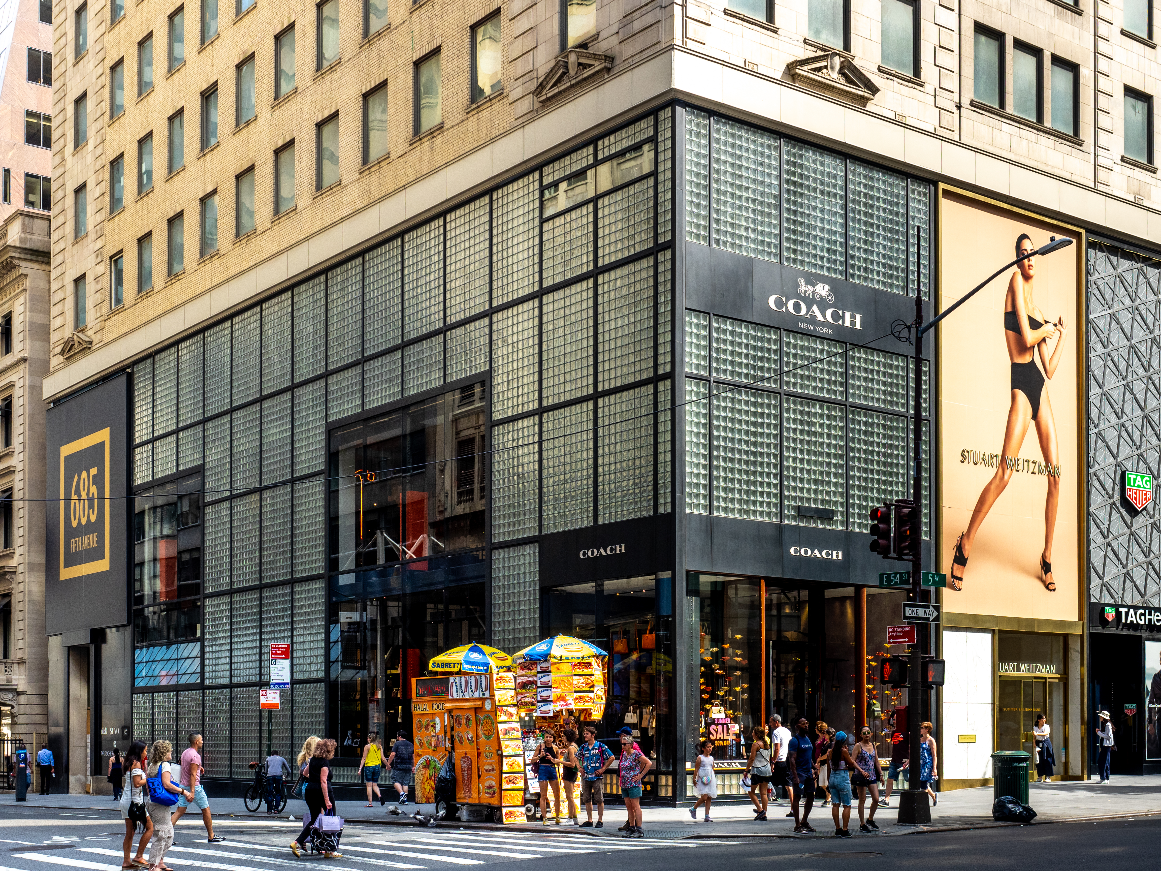 Midtown Manhattan, NYC